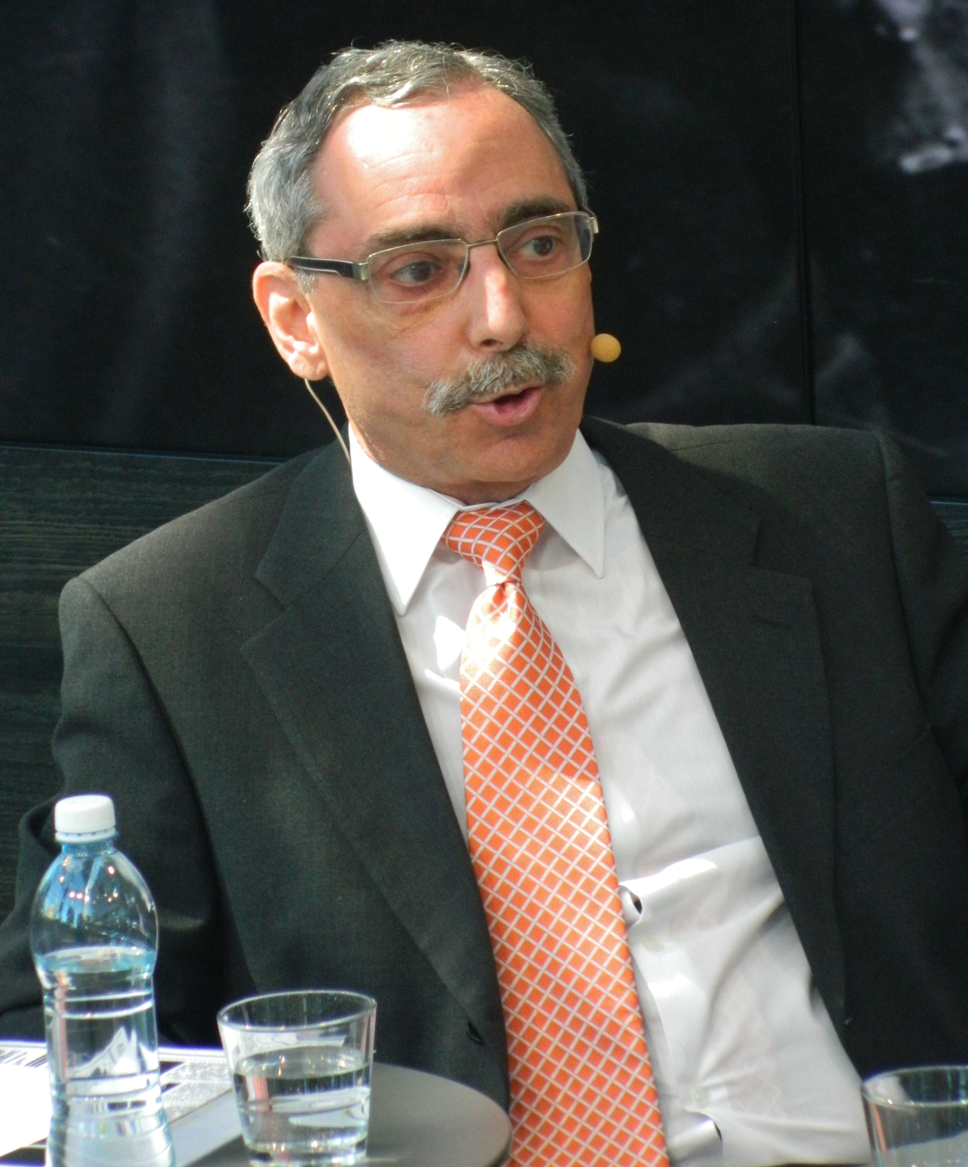 Ben Zyskowicz at the Sanomatalo Media Center, Helsinki